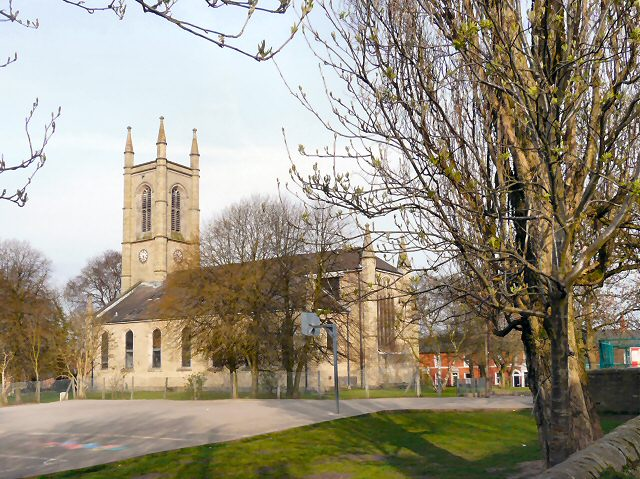 St George's The view of St George's from Church View.